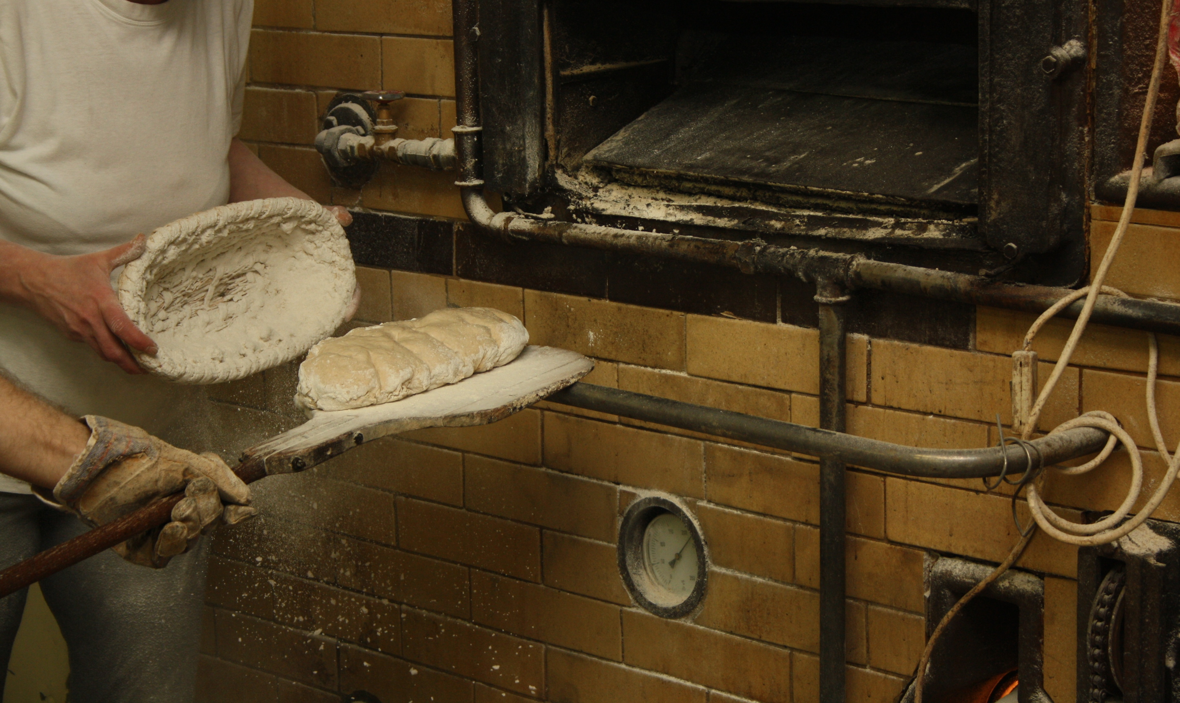 Production process of bread, Czech Republic This photograph was taken with a DSLR from WMCZ's Camera grant. This picture was taken and/or got within the scope of the 'Acquiring scientific and specialized pictures' grant.